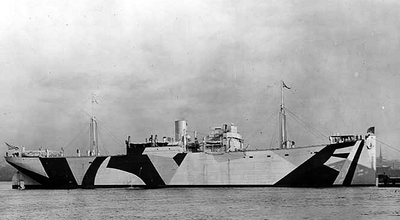 Photo #: NH 105202 USS Federal (ID # 3657) Probably photographed at the time of her completion and delivery to the Navy in mid-November 1918. This freighter was returned to the U.S. Shipping Board on 17 June 1919. Note Federal's "dazzle" camouflage. U.S. Naval Historical Center Photograph.